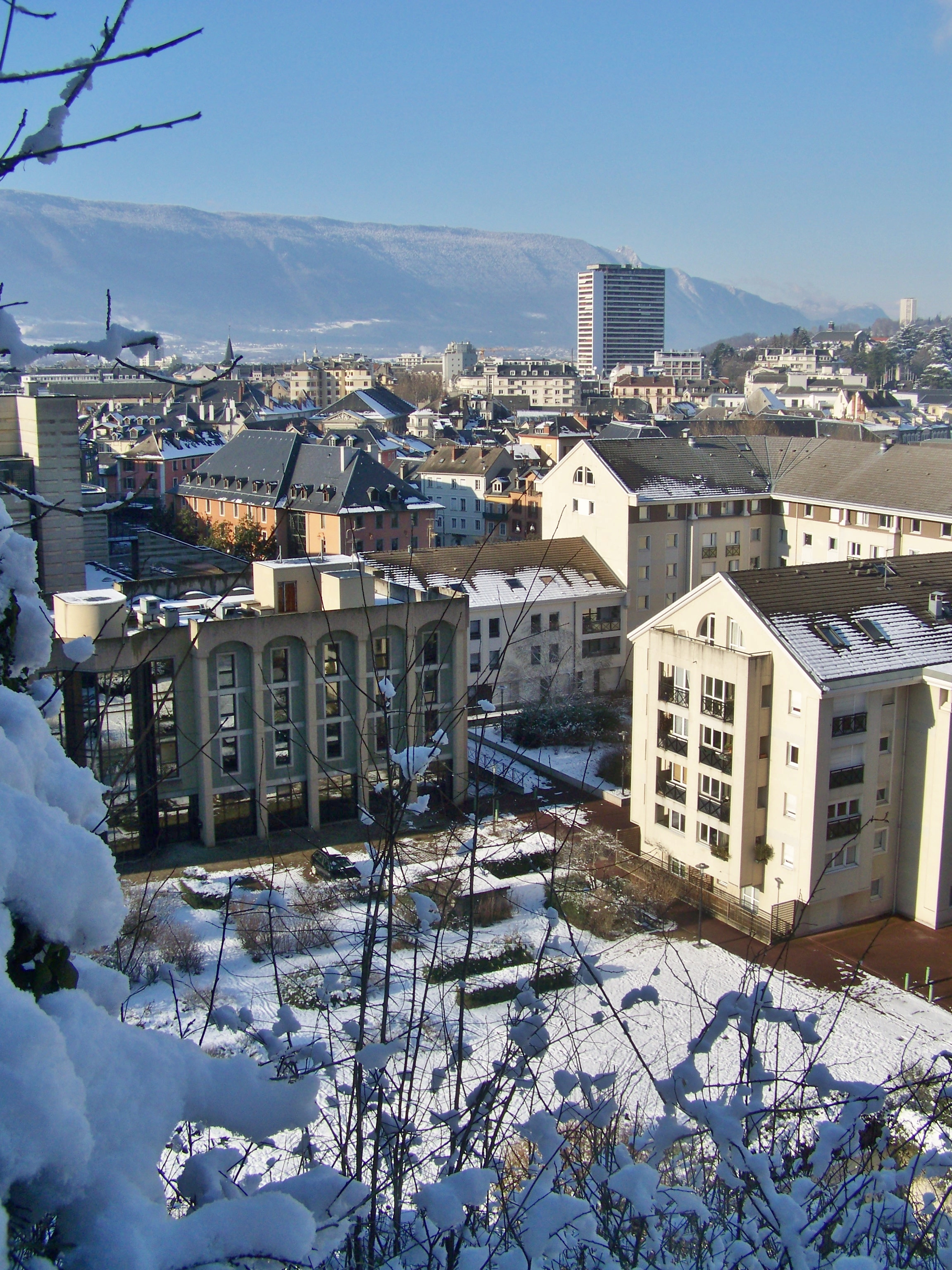 Sight of the snow-covered Chambéry city center, in Savoie, France.